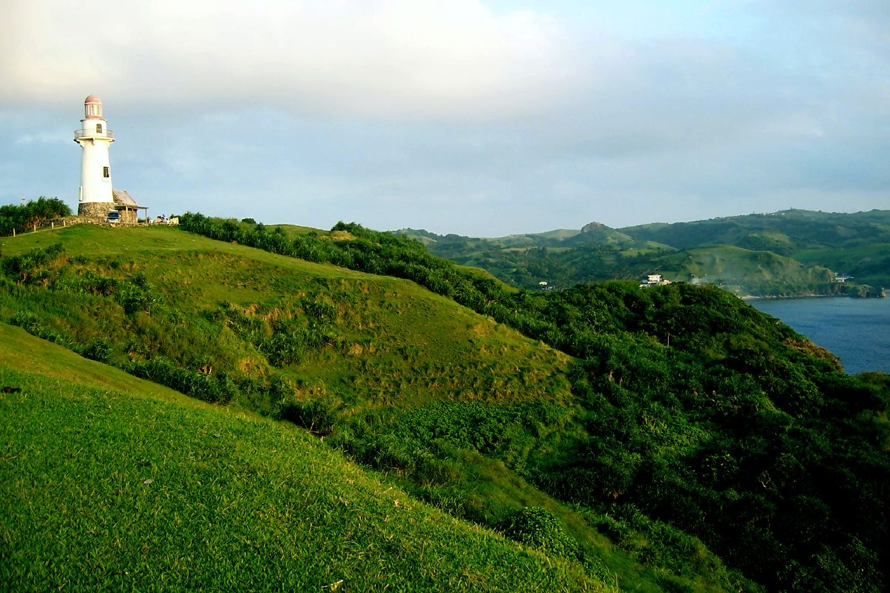 Basco Lighthouse, Batanes, Philippines